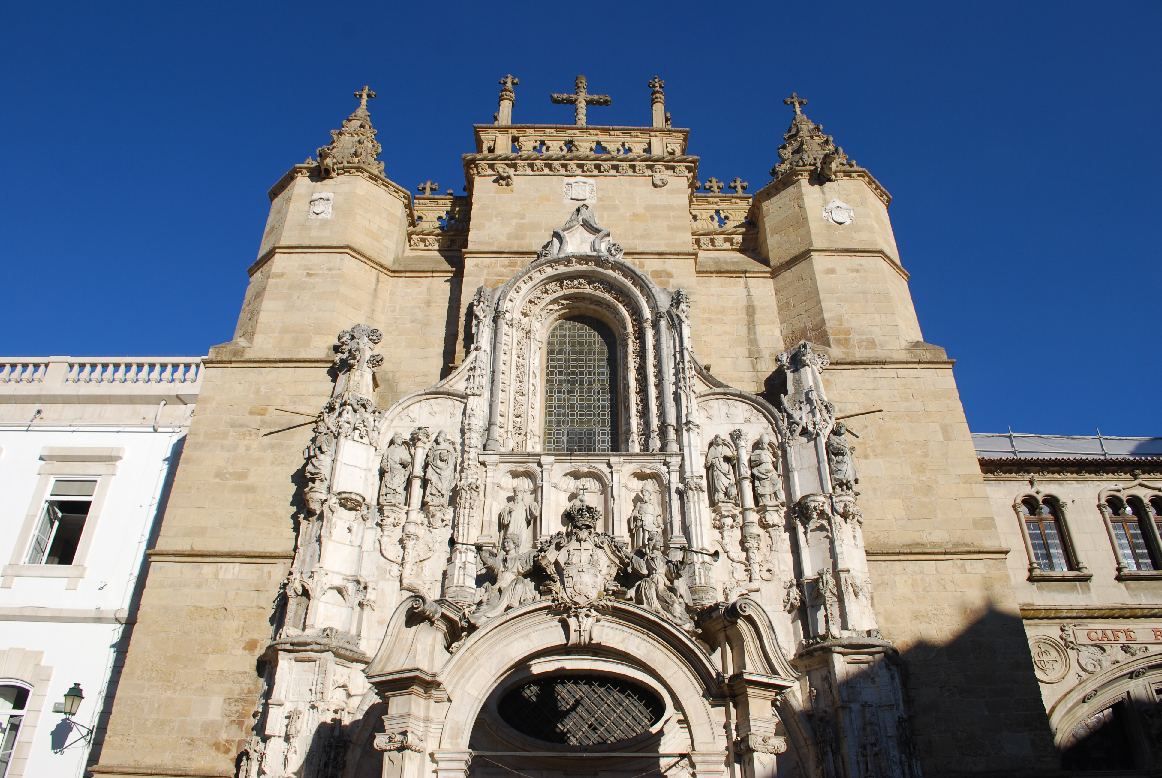 This file was uploaded for Wiki Loves Monuments in Portugal with the unique identifier 69813.